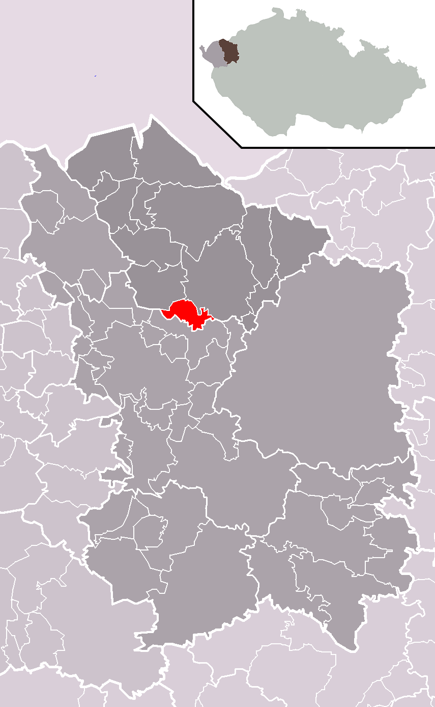 Location of Hájek municipality within Karlovy Vary District and administrative area of Ostrov as a Municipality with Extended Competence.